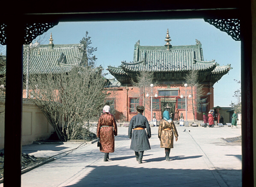 Gandan Monastery. Ulan Bator, Mongolia (1972)